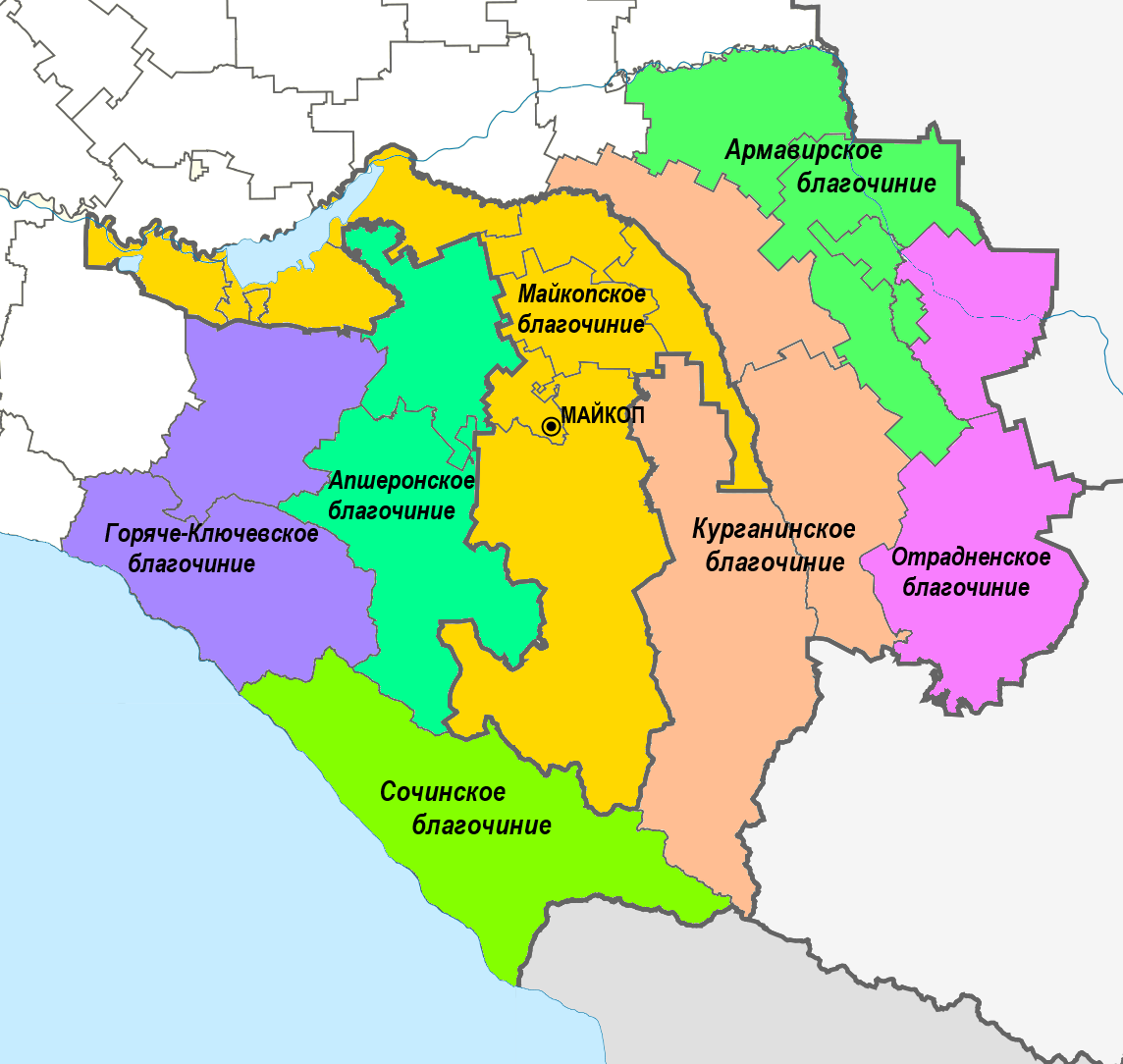 Maikop-Armavir diocese ROC (1994-2000)